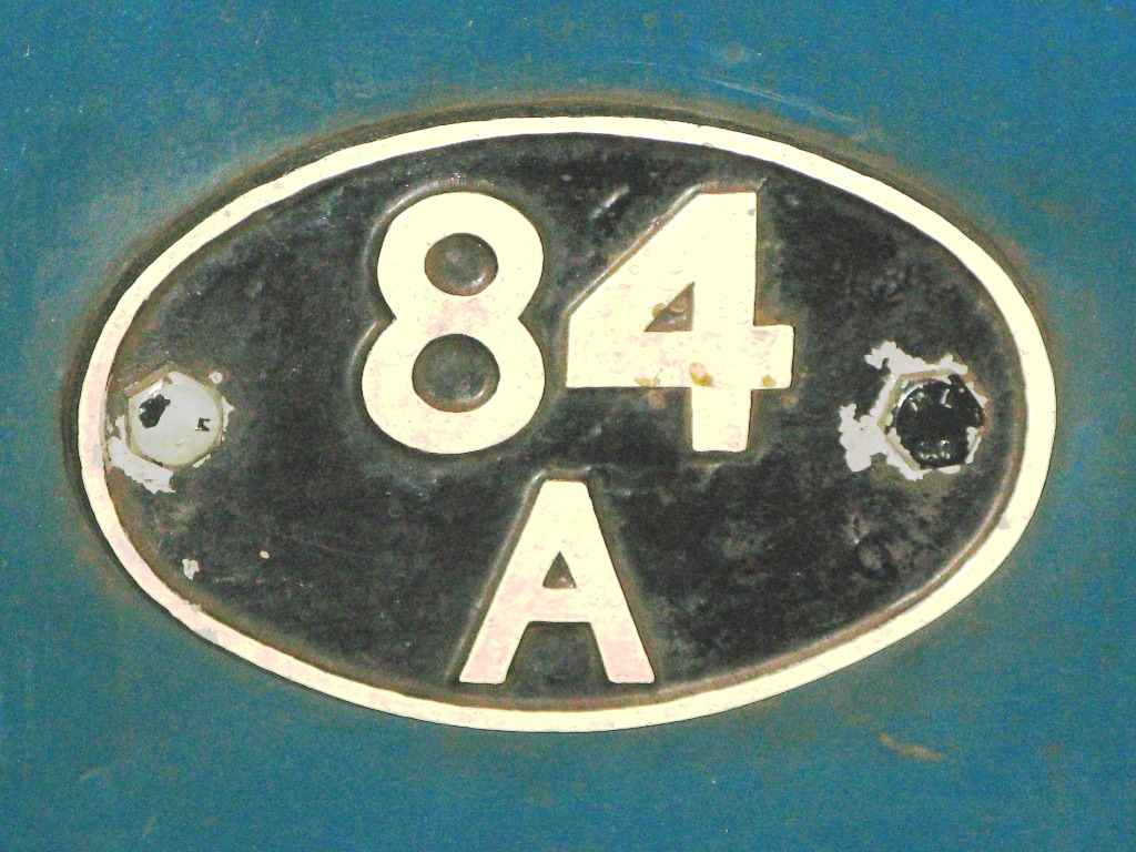 The shed plate of British Rail Class 52 D1023 Western Fusilier photographed at the National Railway Museum in England. The code 84A was used betweeen 1963 and 1973 to identify locomotives allocated to Plymouth Laira Diesel Depot.